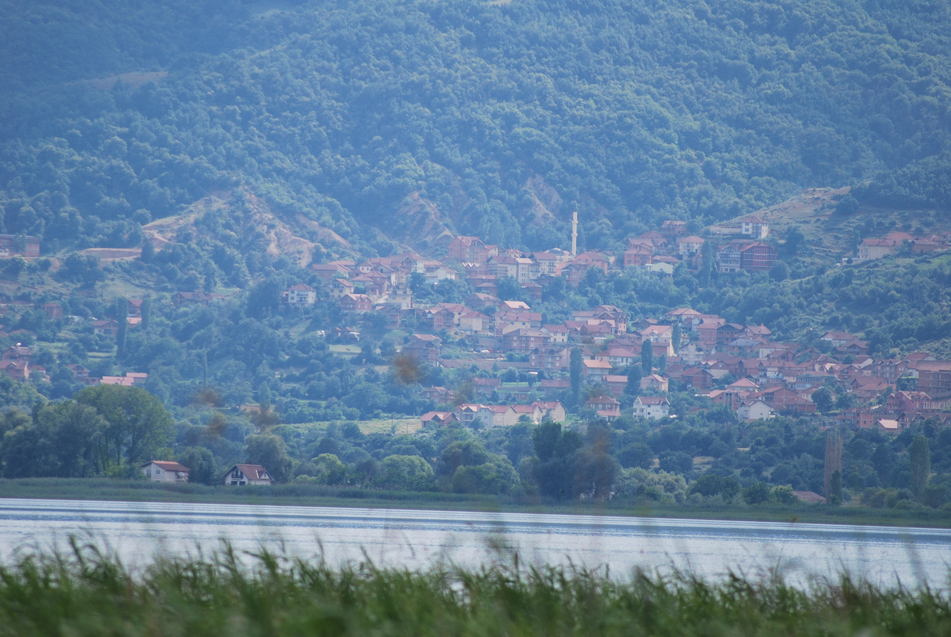 Frangovo, Macedonia